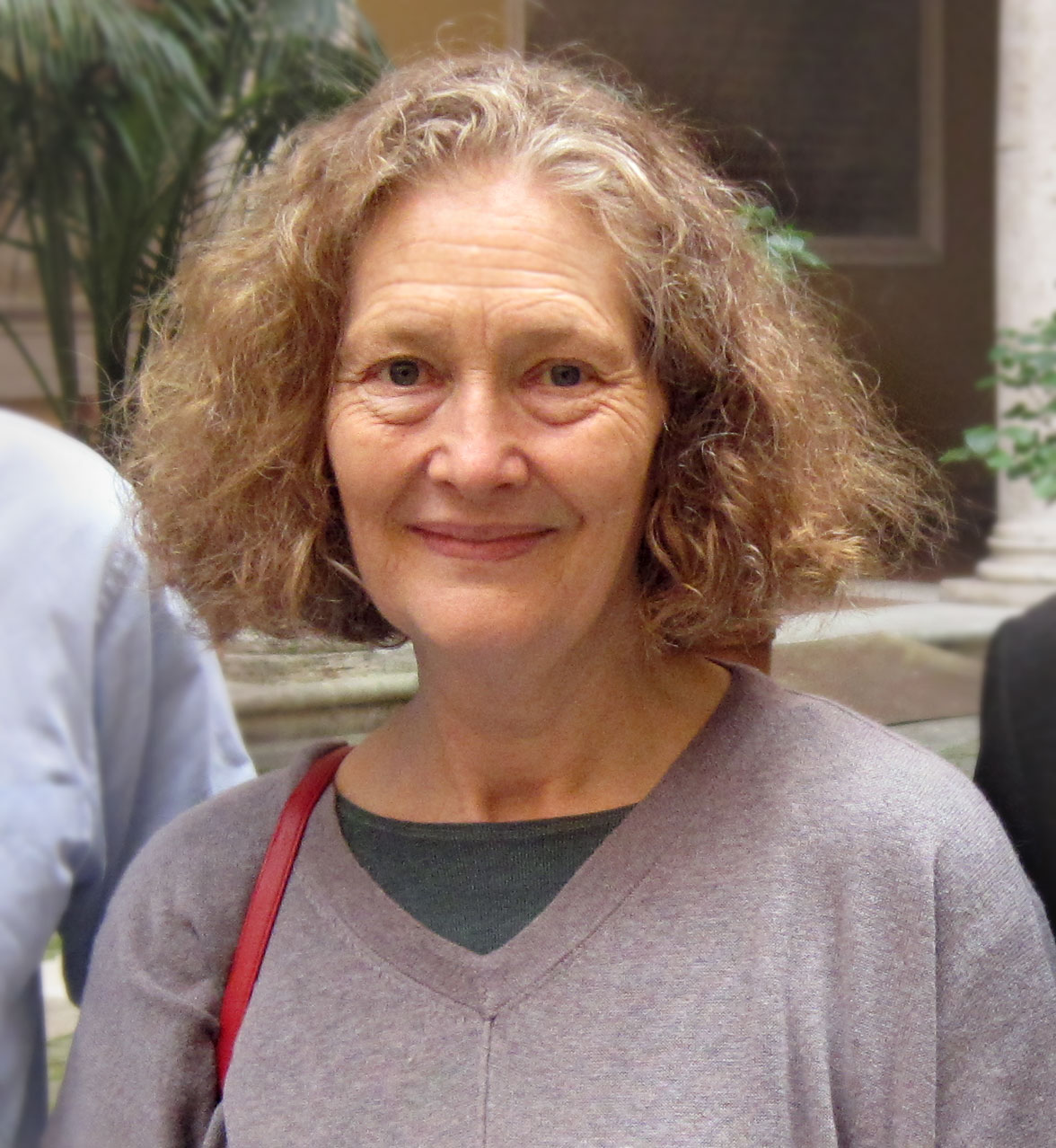 British soprano Emma Kirkby